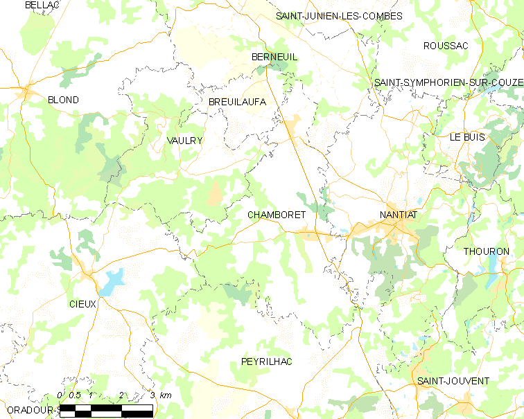 Map of French municipality Chamboret